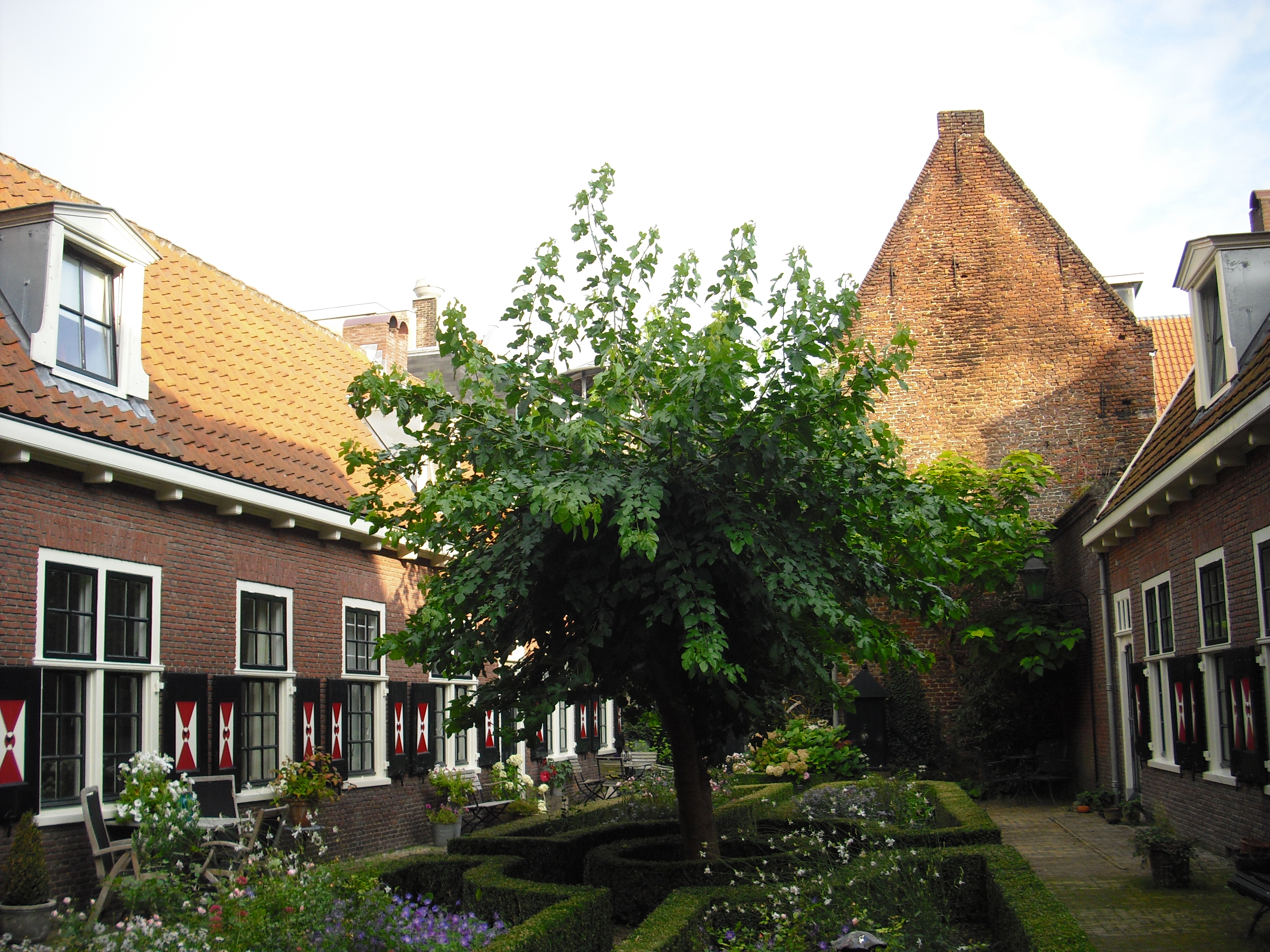 The last 'hofje' in the Dutch city Deventer: the Jordenshof.